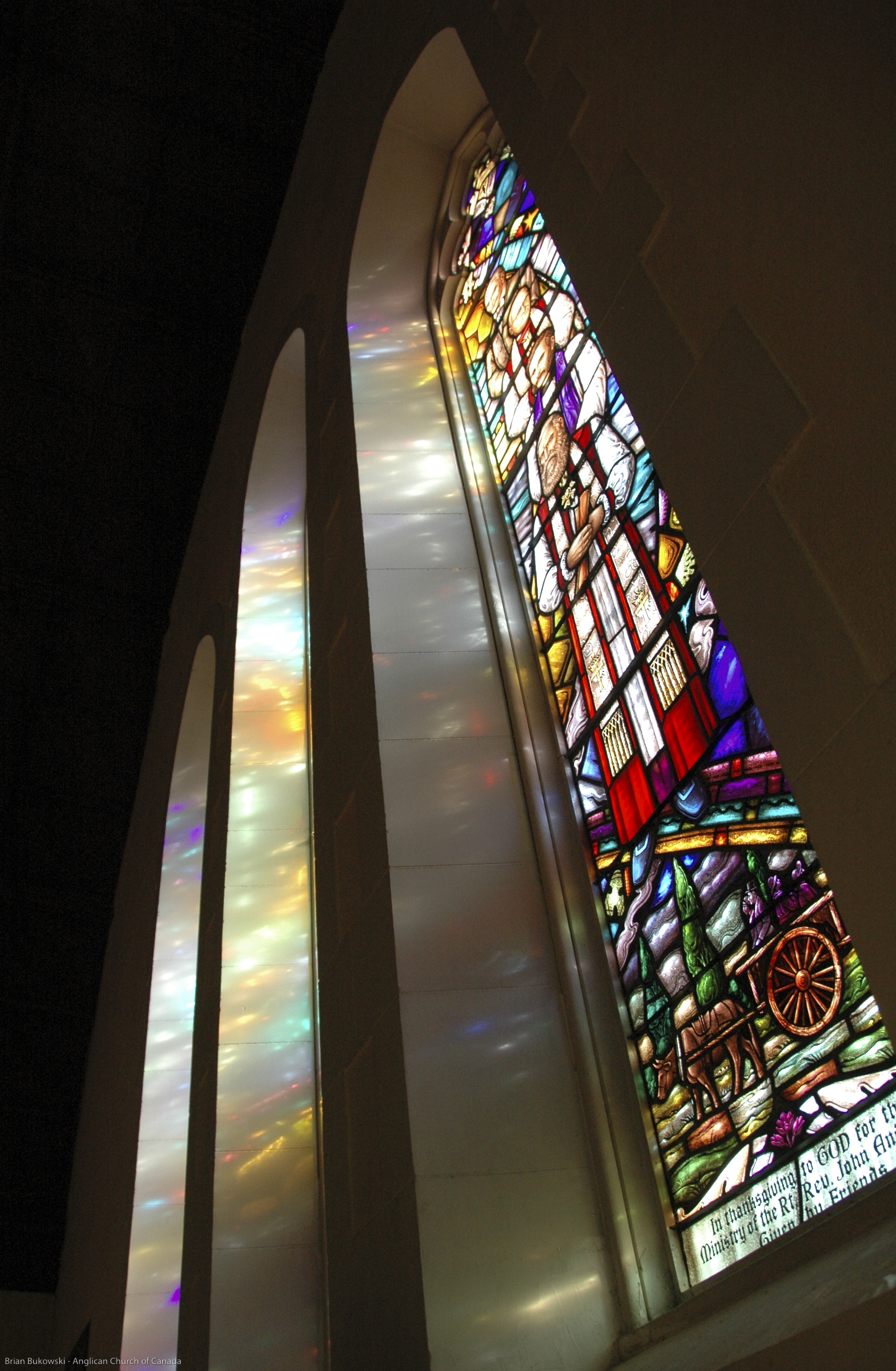 St. John's Anglican Cathedral, Winnipeg MB